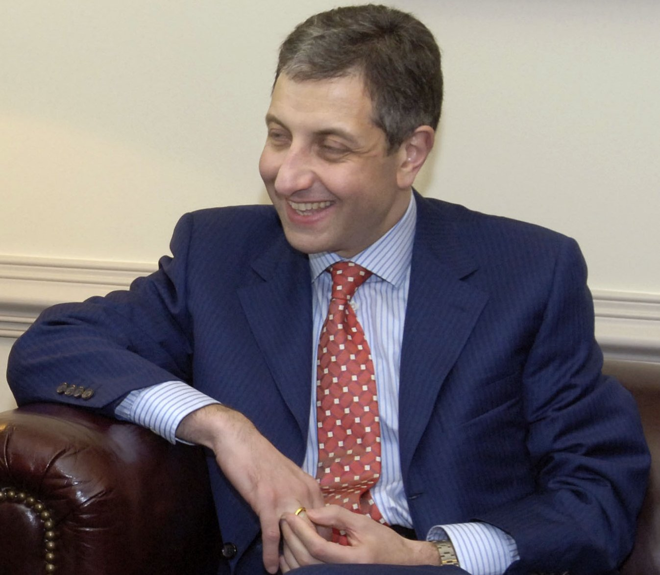 Zurab Noghaideli.